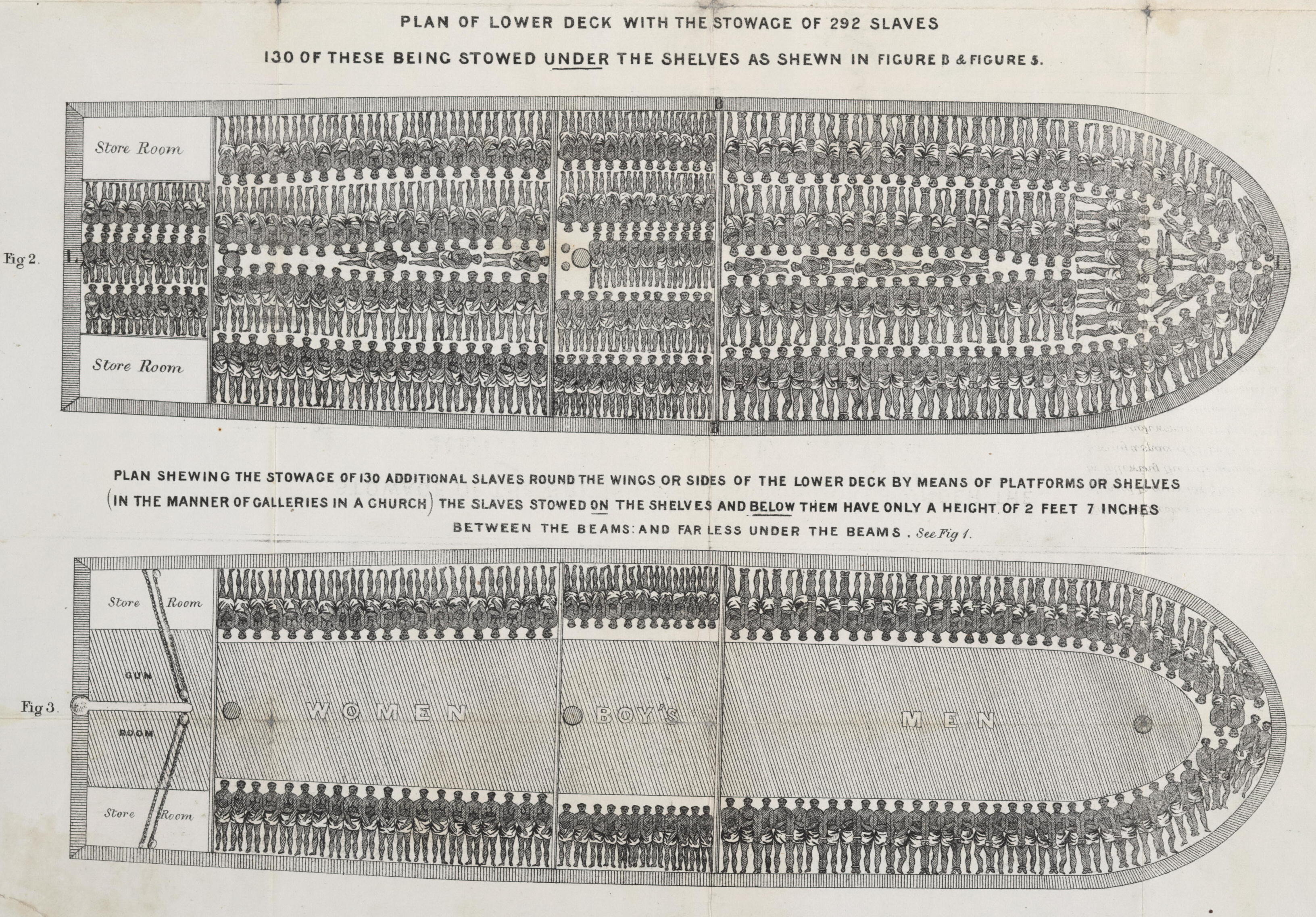 Stowage of the British slave ship Brookes under the regulated slave trade act of 1788.